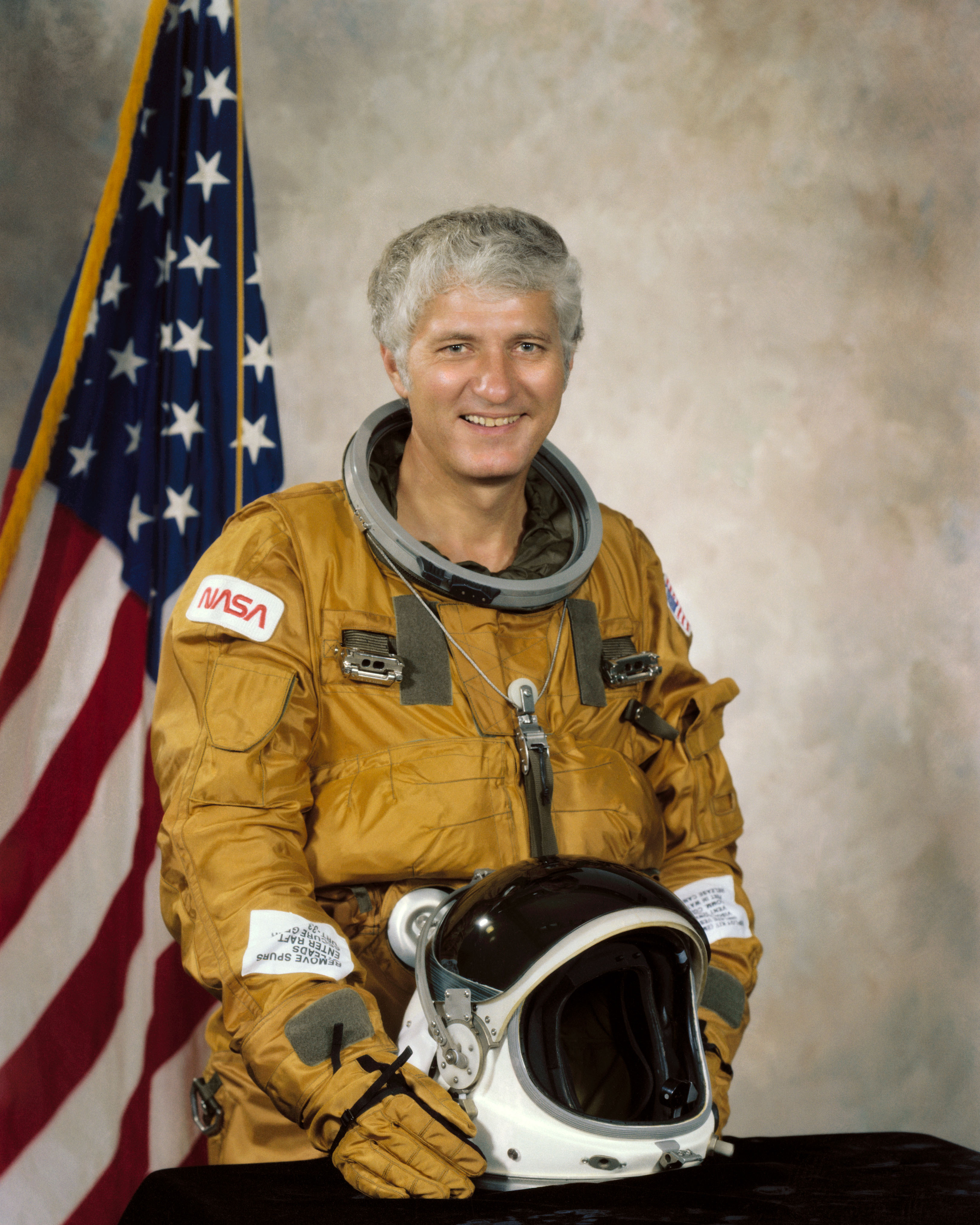 Official NASA portrait of Hank Hartsfield.